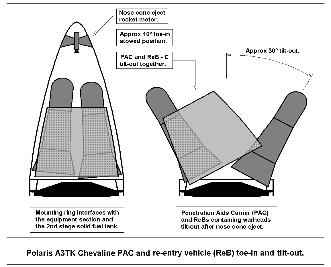 Drawn by the author Brian Burnell from a sketch and description in a scientific paper presented at a Royal Aeronautical Society symposium 2004 and re-published in ISBN 1-85768-109-6. The drawing is entirely the author's own work and should be attributed to Brian.Burnell.